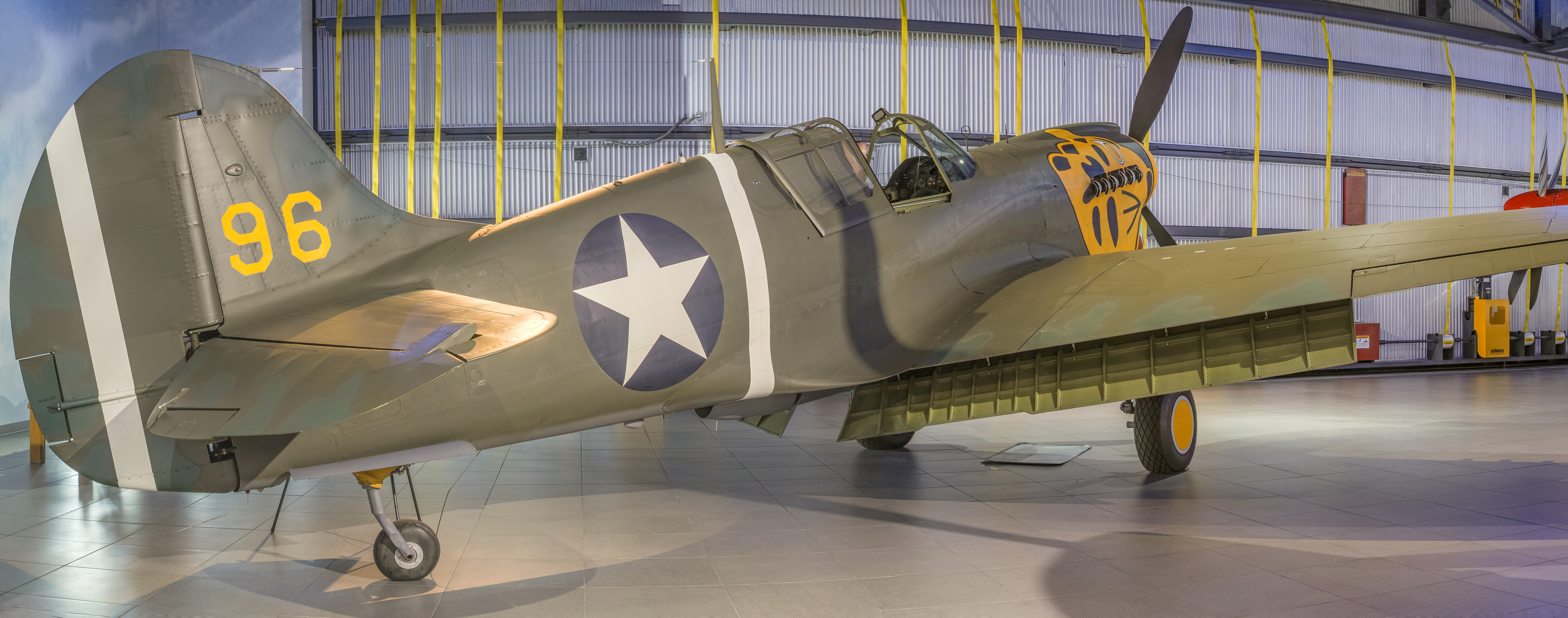 A restored P-40K at the Fagen Fighter Museum